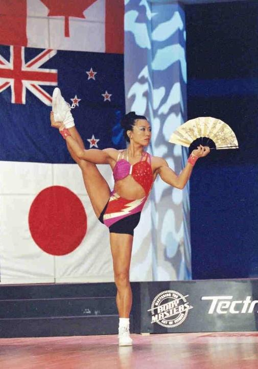 Chisato Mishima